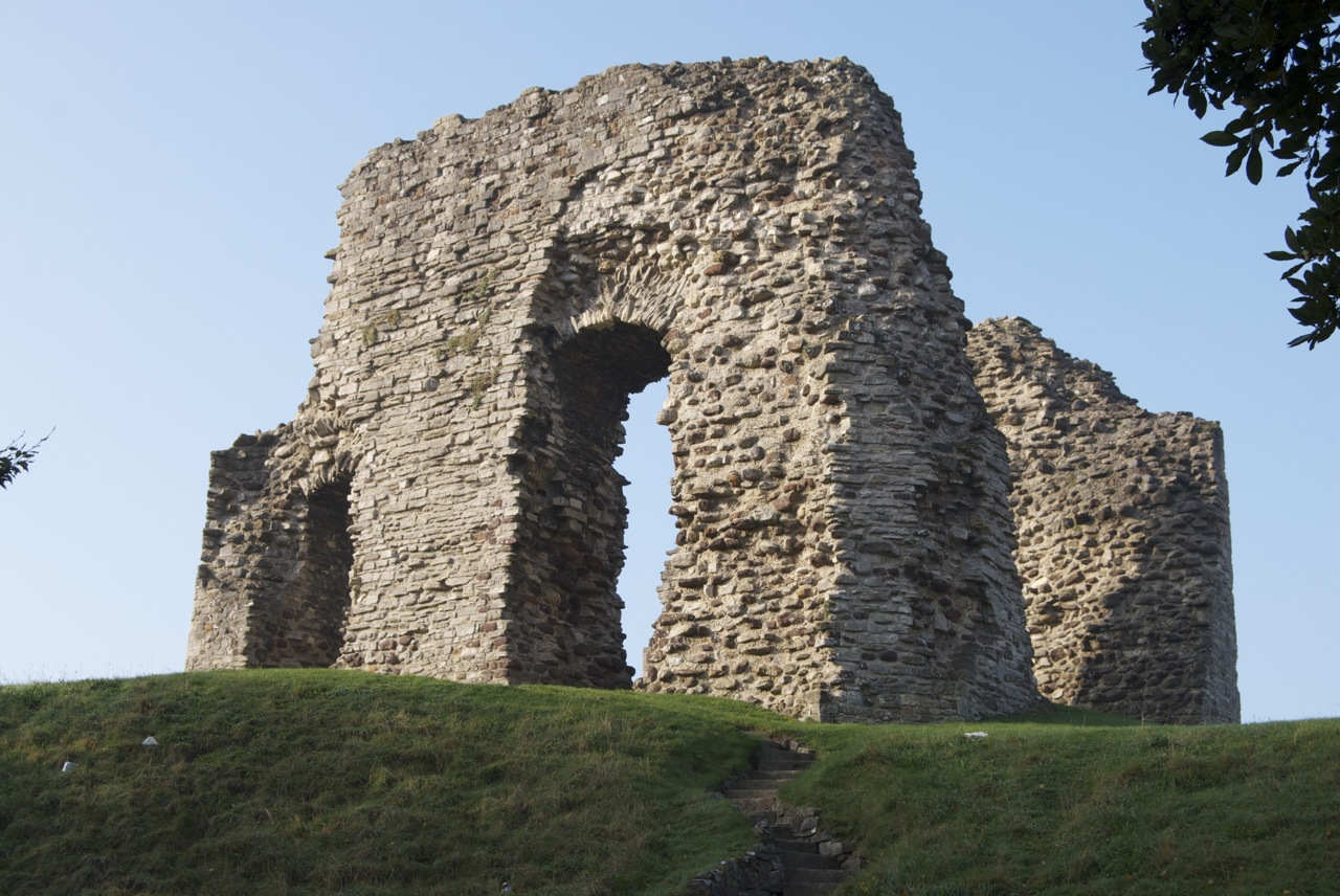 Photos of this ancient town nestling on the south coast of England between the rivers Avon and Stour.